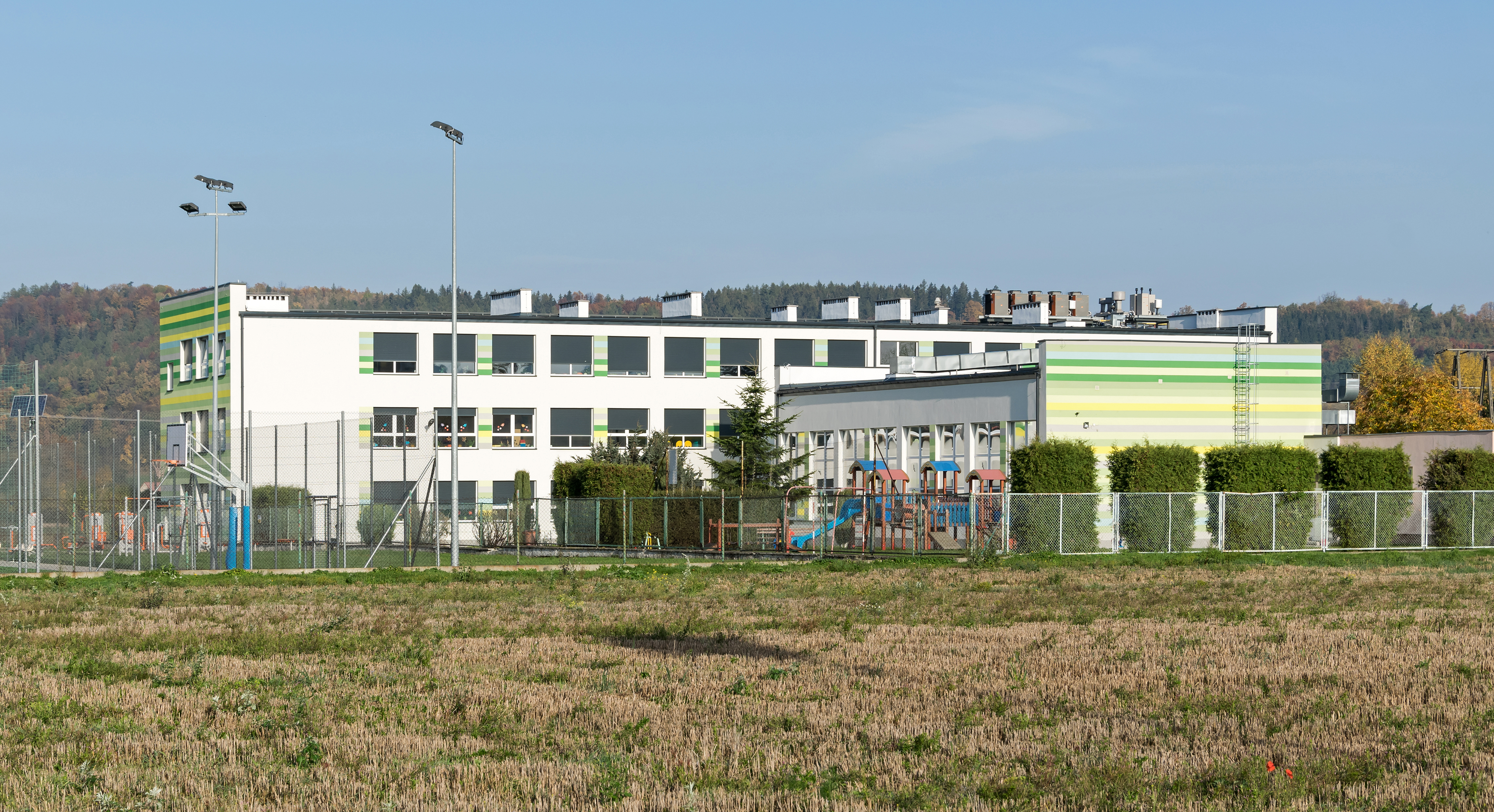 Elementary school in Ołdrzychowice Kłodzkie